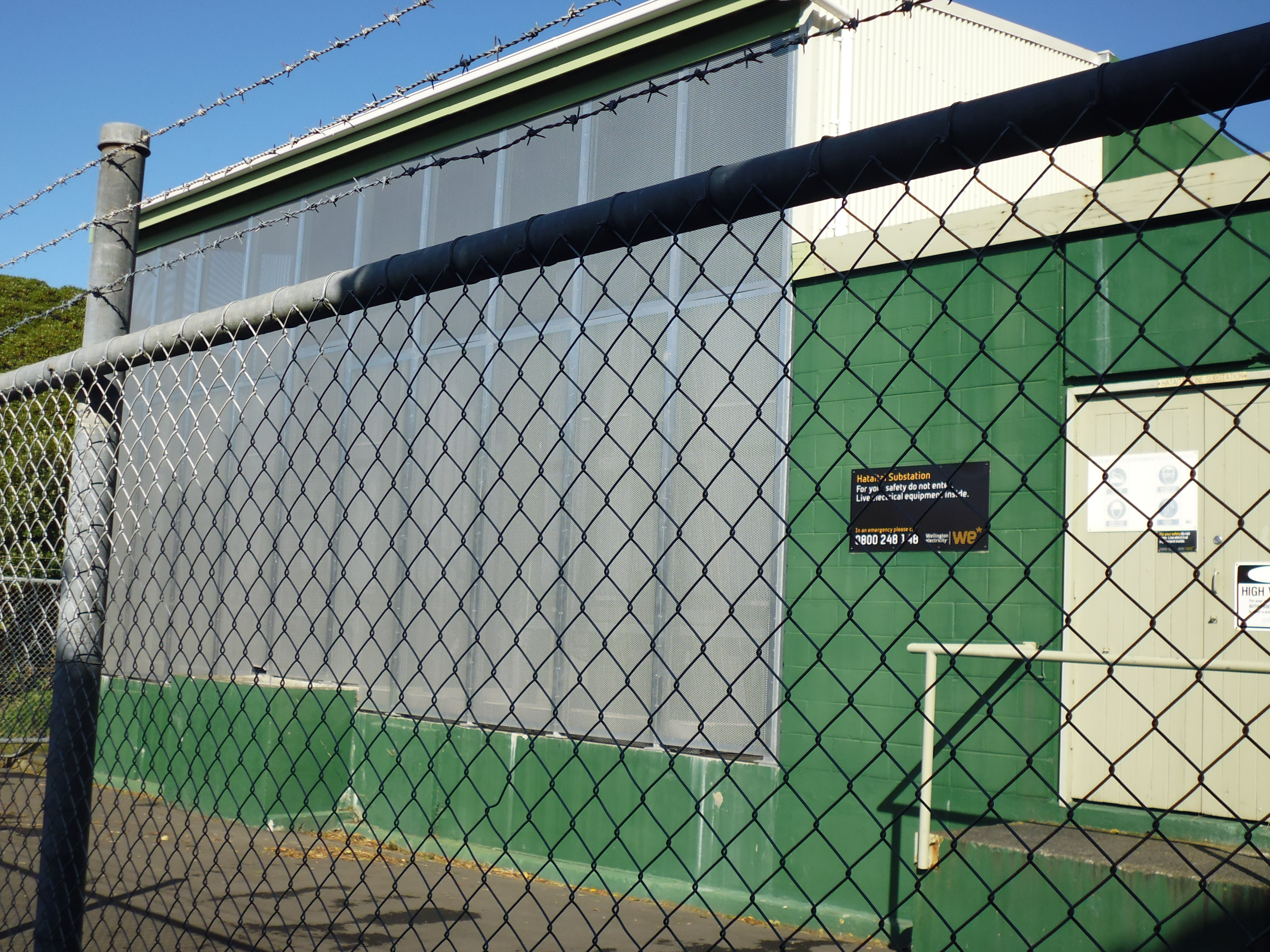 The Hataitai Electrical Substation, Wellington, New Zealand.